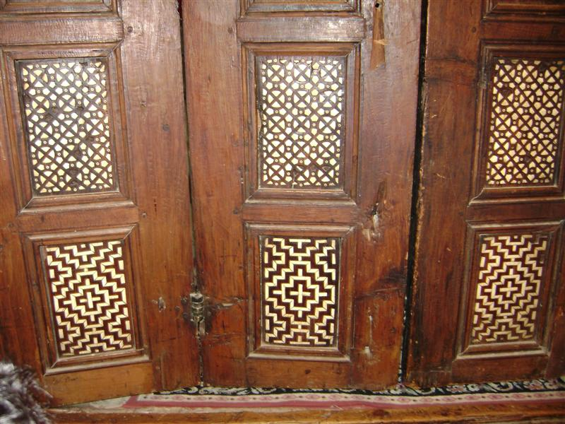 Door of Prophecies at the Christian Syrian Monastery in Egypt